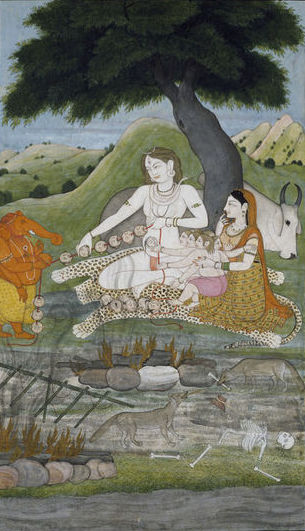 "Painting, in opaque watercolour and gold on paper, the burning ground; Lord Shiva with wife, Parvati, and two sons,Ganesh and Kartikeya (Skanda). Sitting uner a tree, Katikeya is represented giving the heads (from the dead bodies) to Shiva, who, aided by Ganesh, is stringing them as a necklace."